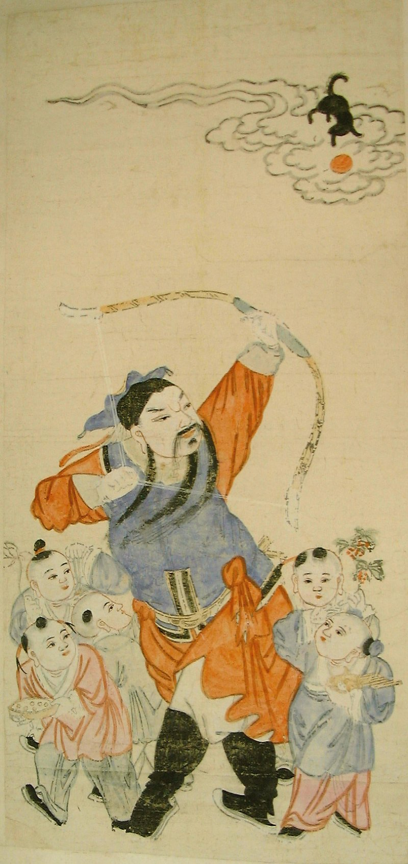 This painting depicts Zhang the Immortal shooting a pebble bow at a heavenly dog. Because of the painting's association with the story of Lady Flower Stamen, a concubine of the first Song Emperor Tai Zu, it is often interpreted as a metaphor for fertility.